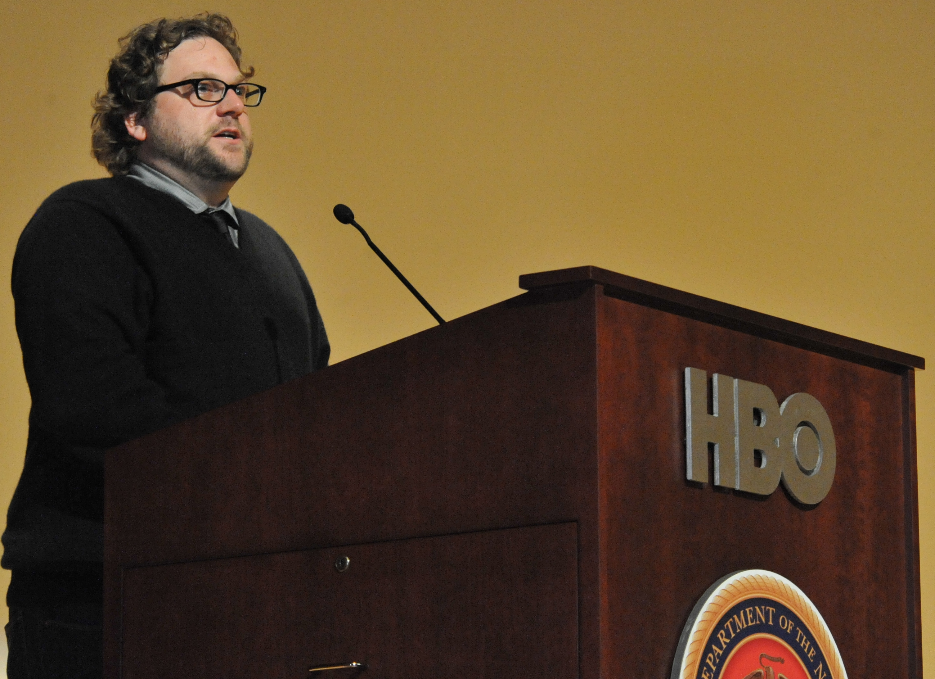 Ross Katz, the director of HBO Films' Taking Chance addresses guests at Little Hall Theater on Marine Corps Base Quantico prior to the Virginia premiere of Taking Chance on February 10, 2009. The film follows U.S. Marine Lt. Col. Michael Strobl, the officer who escorted the body of Marine Lance Cpl. Chance Phelps home to Dubois, Wyoming from Dover, Delaware.